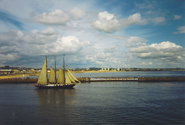 SS Malcolm Miller leaves Aberdeen, Tall Ships Race 1991. Taken from by Torry Battery.